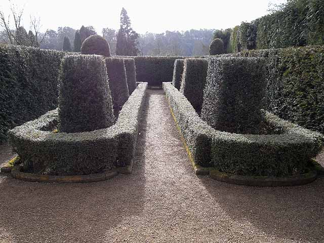 The Yew Garden at Belsay Hall. Part of the extensive and attractive gardens at Belsay Hall Belsay_Hall in the care of English Heritage.